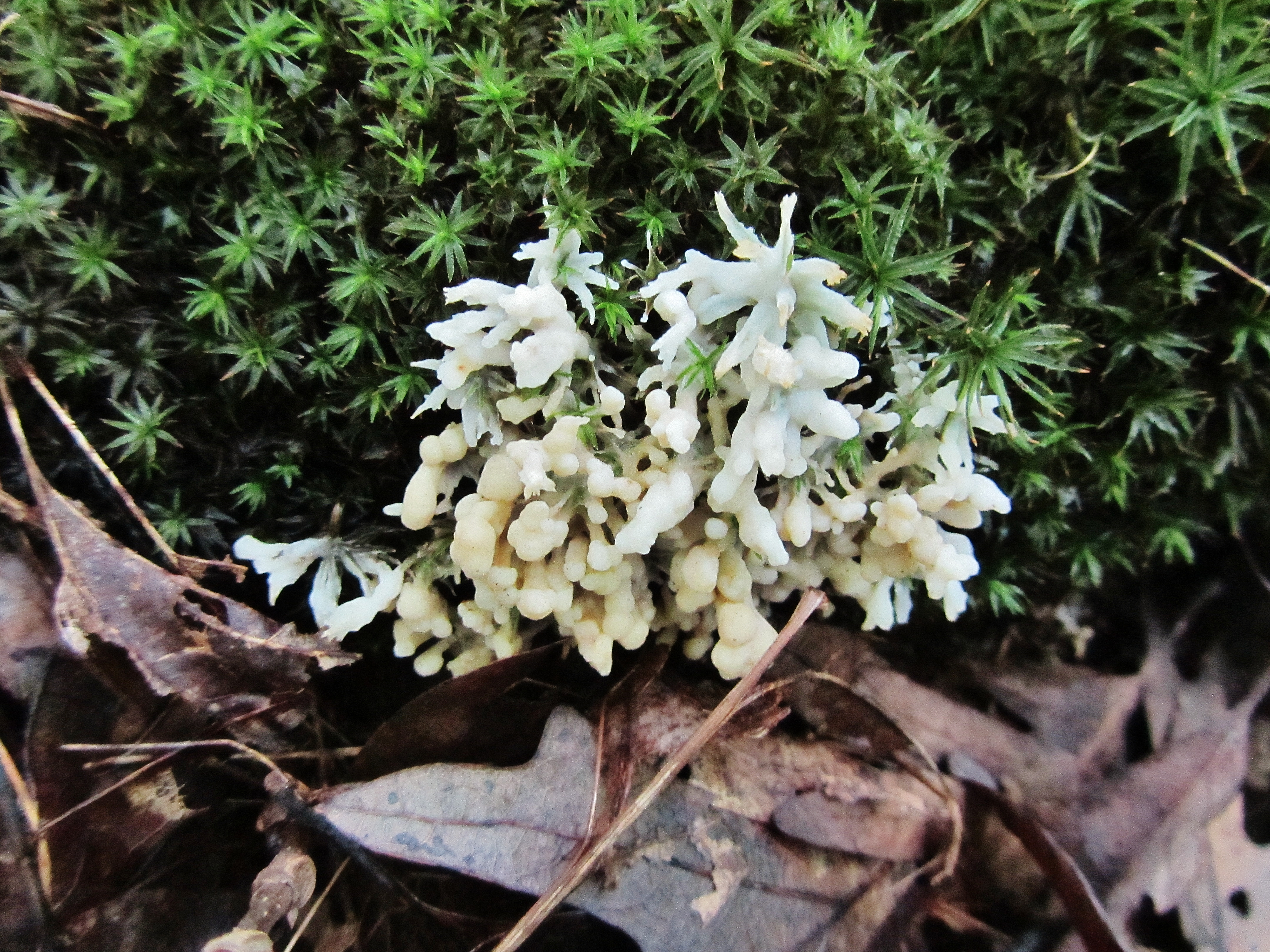 Sebacina incrustans (Pers. :Fr.) Tul. & C. Tul. Image location: Indiana Dunes National Lakeshore, Indiana, USA Recognized by sight For more information about this, see the observation page at Mushroom Observer.